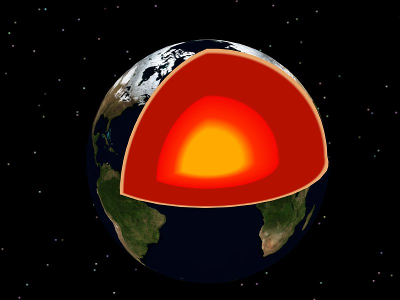 A wood texture (Rings) allows for the 3-dimensional texturing of the earths core.